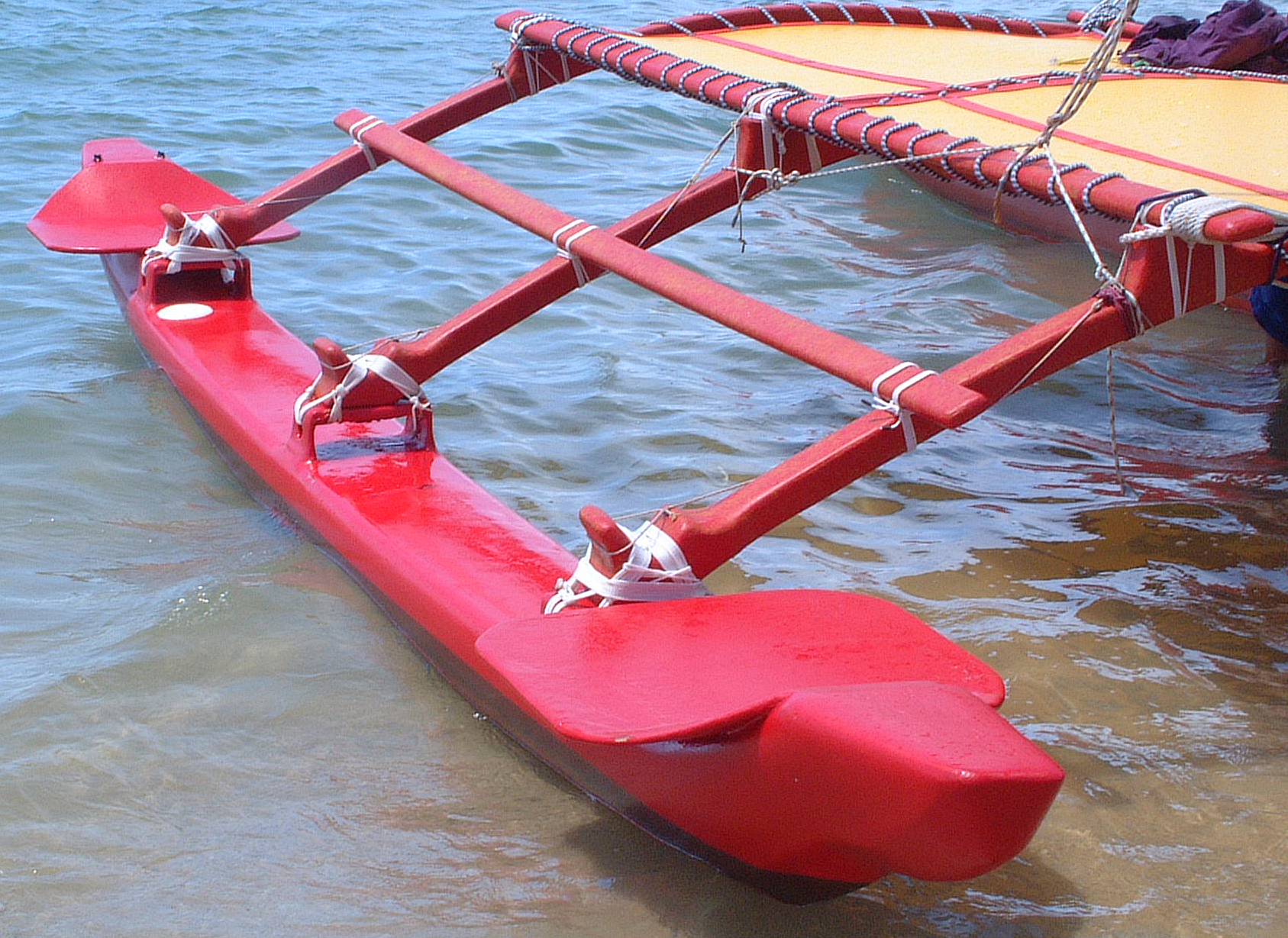 Photographer: Mak Thorpe, taken 2006